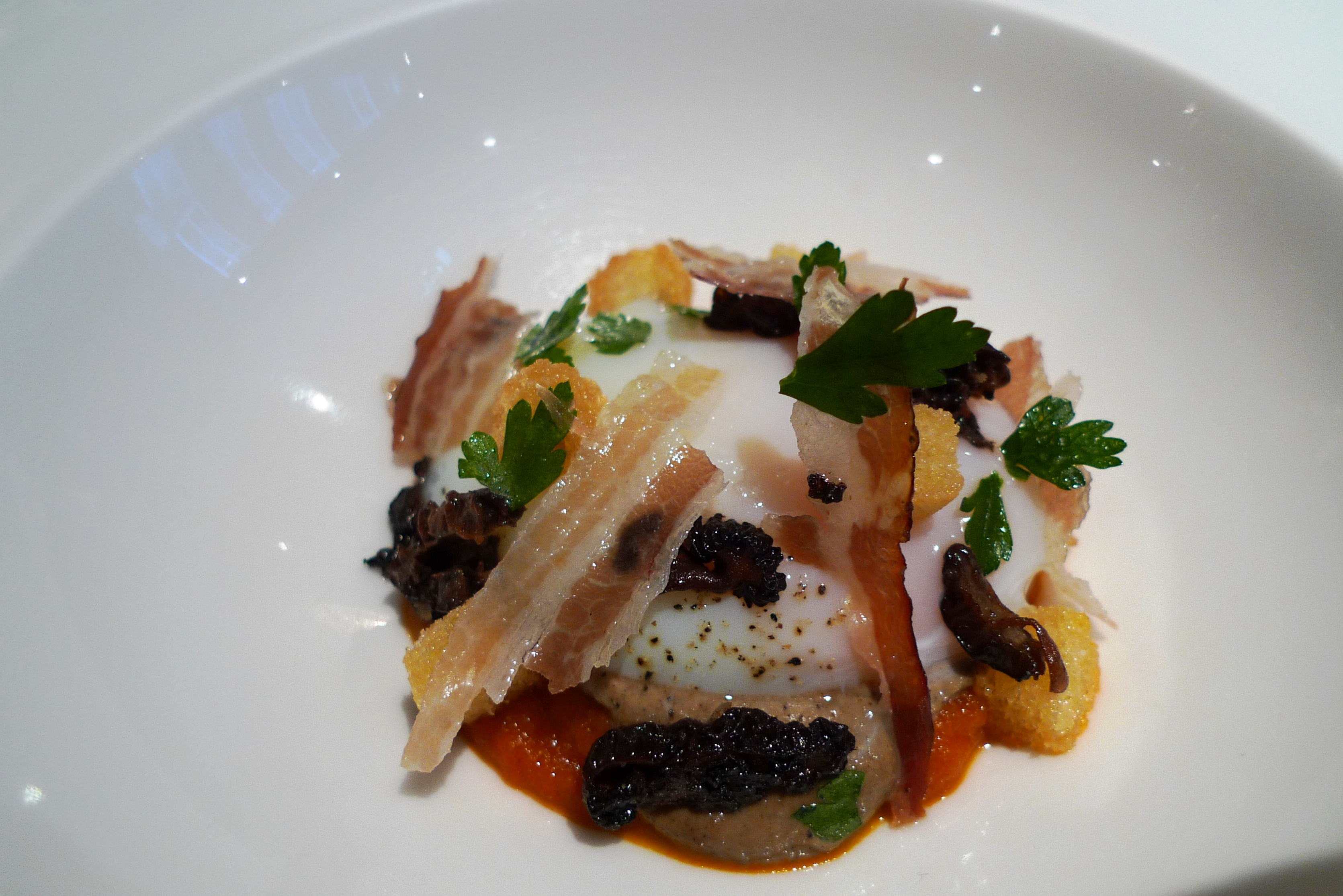 This is billed in the menu as "Full English breakfast". Sort of a deconstruction, with a slow-cooked egg, about the most vibrantly orange I've ever seen an egg, with bits of pancetta, some mushrooms and croutons, with the tomato sauce presumably the beans. Not in any way like a full English, but still interesting. At Pollen Street Social, Pollen Street.